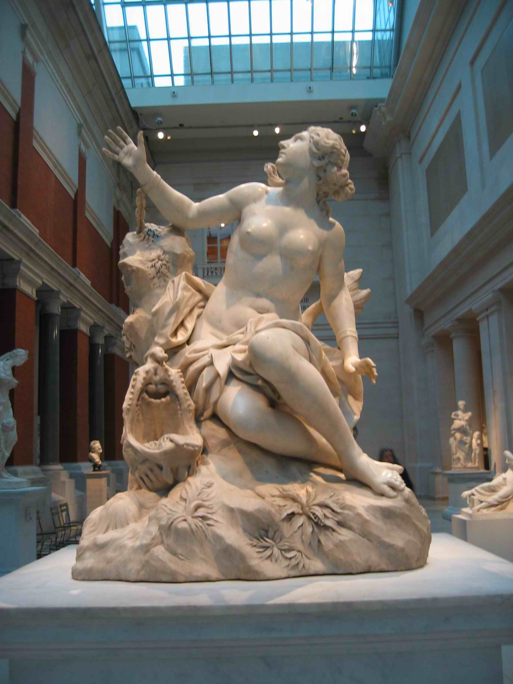 Andromeda and the Sea Monster (1694) Metropolitan Museum of Art, New York City